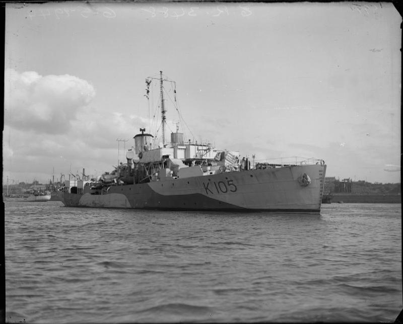 HMS Loosestrife underway on the Tyne.